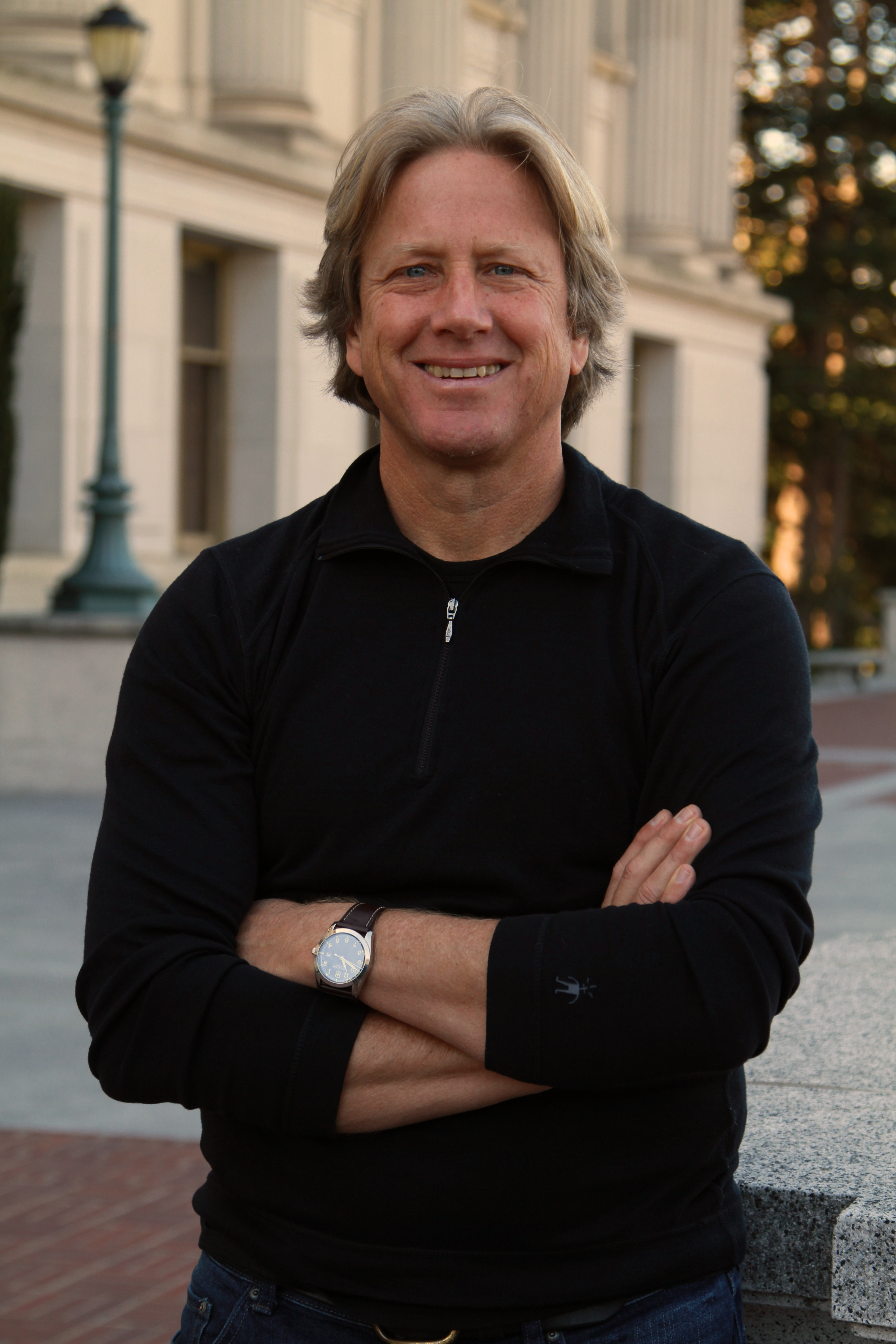 Dacher Keltner